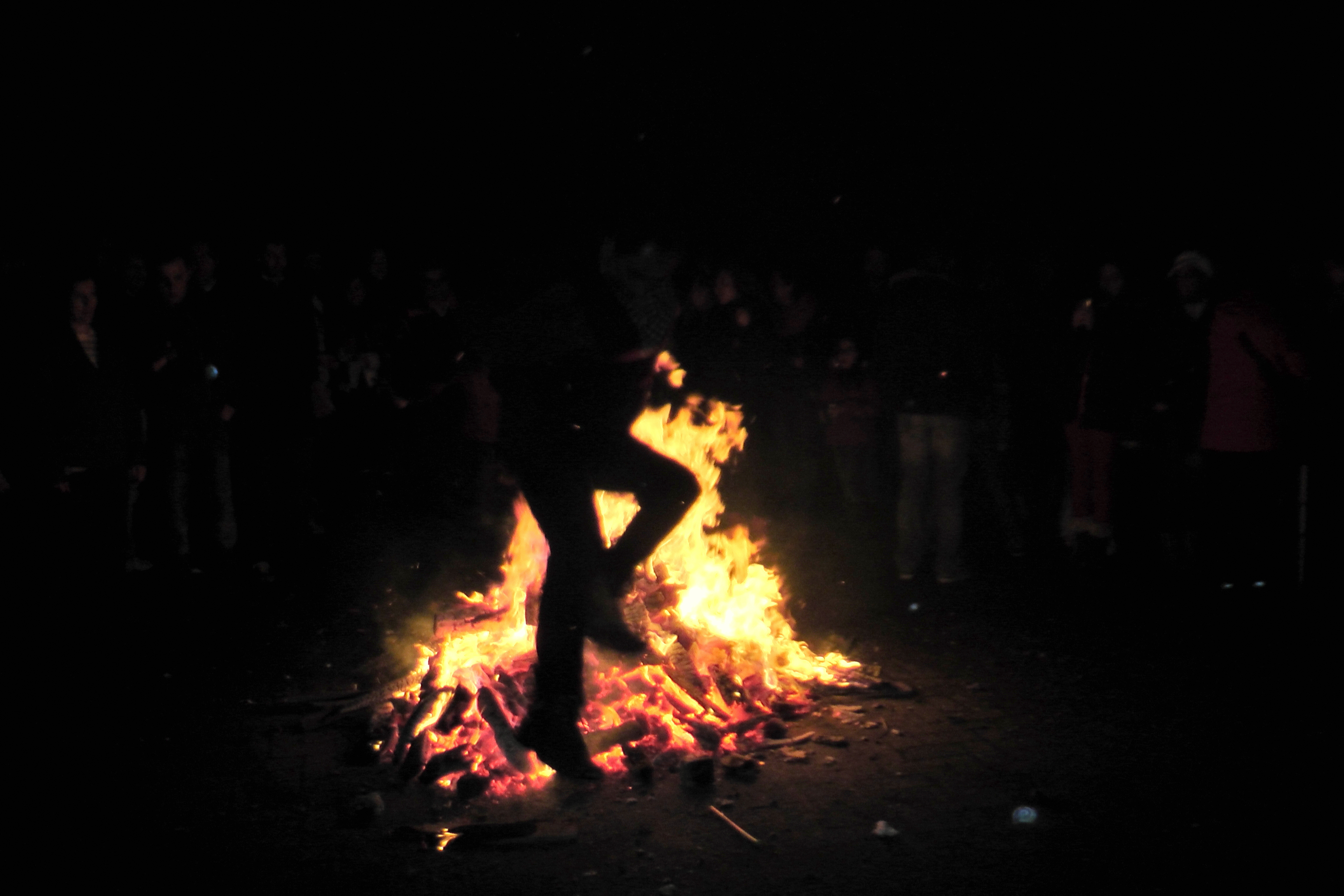 Persian Festival of Fire (Chaharshanbe Suri) in The Netherlands. Photo by Pejman Akbarzadeh, March 2013